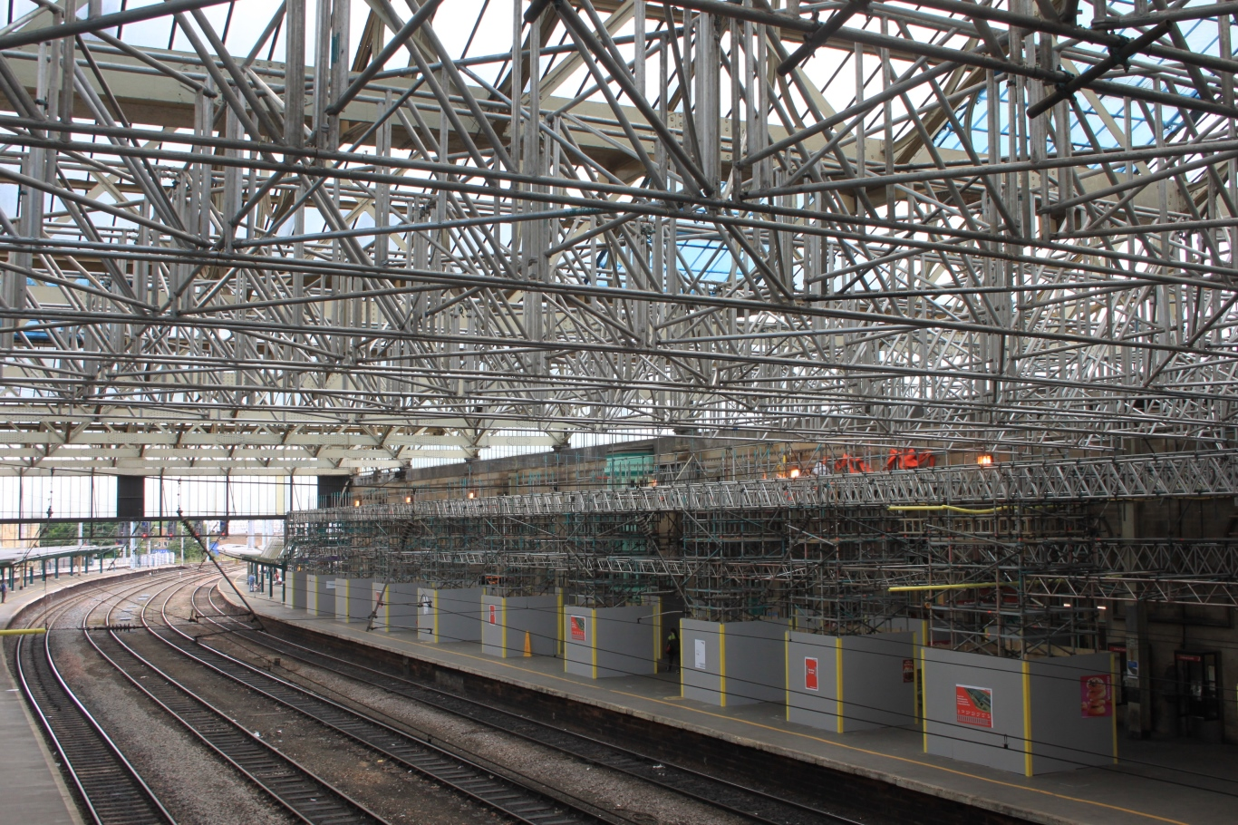 2016 saw the start of a project to refurbish the train shed roof at Carlisle railway station. This view shows the scaffolding and protective screening being erected at the start of the work.